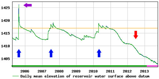 Lake Stamford elevation from 2005-04-01 to 2013-10-6